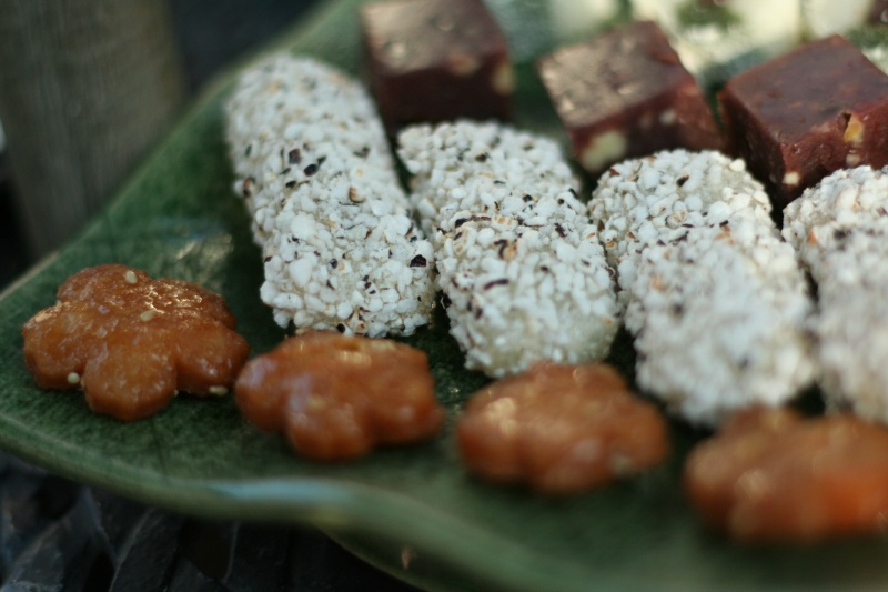 Served with Yakgua, Yugua and Yangang which are Korean traditional dessert in a tea shop in Insadong, Seoul, Korea